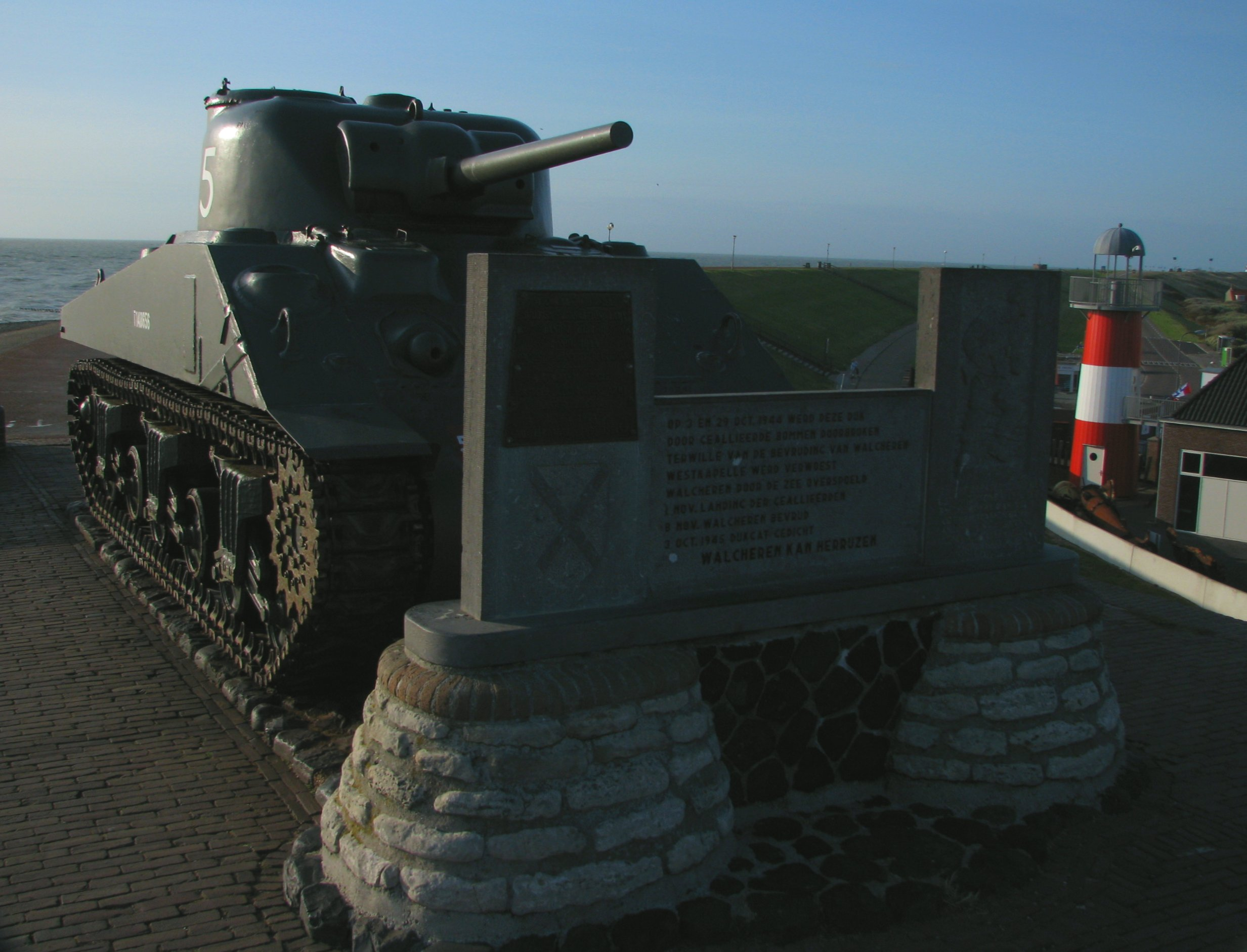 Westkapelle Zealand monument: 8 Nov 1944 liberation by the Allies - Walcheren can be resurrected, photography Wolfgang Pehlemann IMG_0133